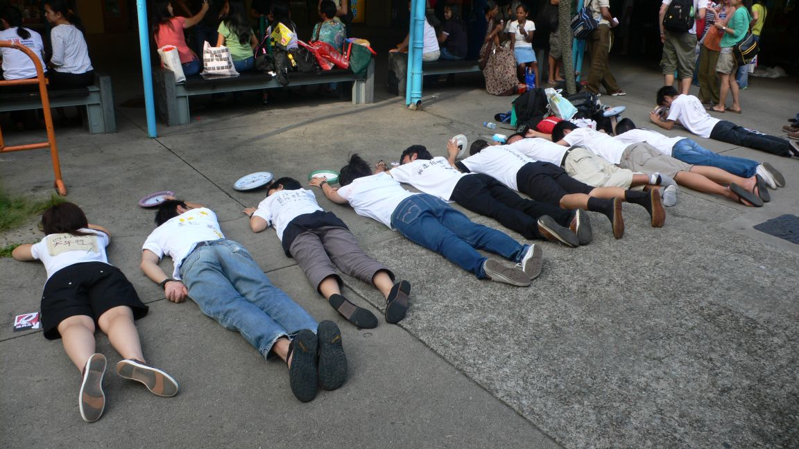 Protesters who want to keep the clock tower of Star Ferry Pier